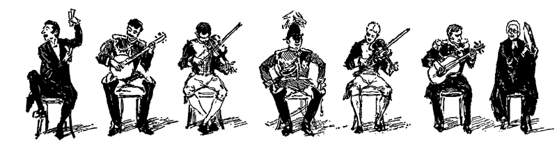 Image taken from